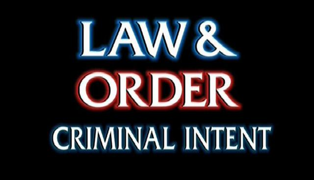 Screenshot of the opening title card of Law & Order: Criminal Intent television series